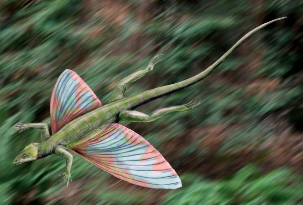 Coelurosauravus jaekeli, a gliding reptile from the Upper Permian of Germany, pencil drawing